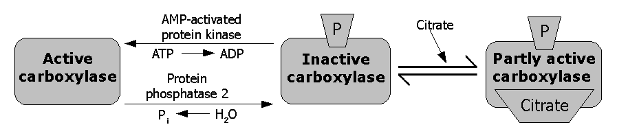 Control of Acetyl CoA Carboxylase. Uploaded PNG because the SVG cannot render correctly.